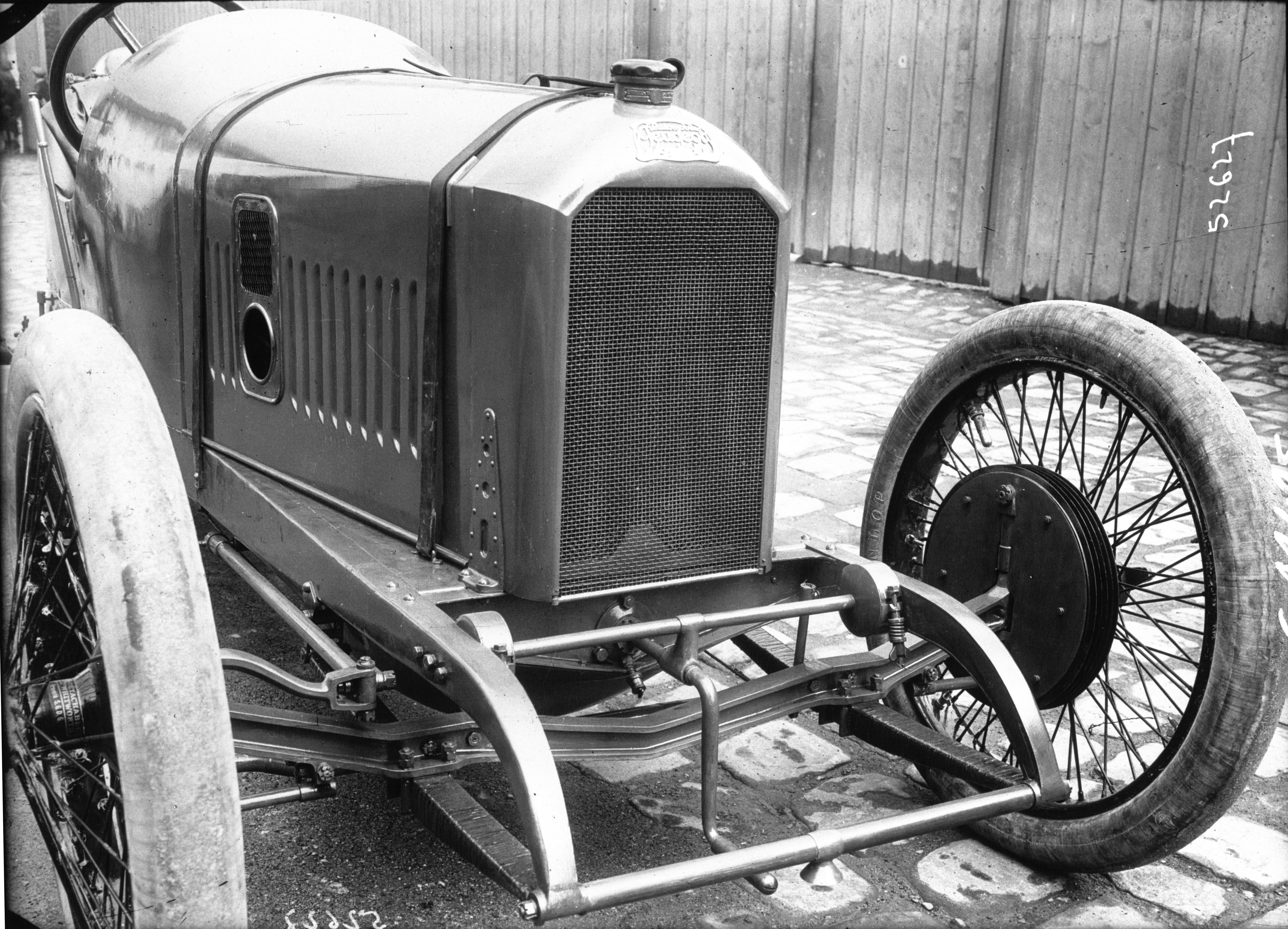 Peugeot at the 1914 Indianapolis 500